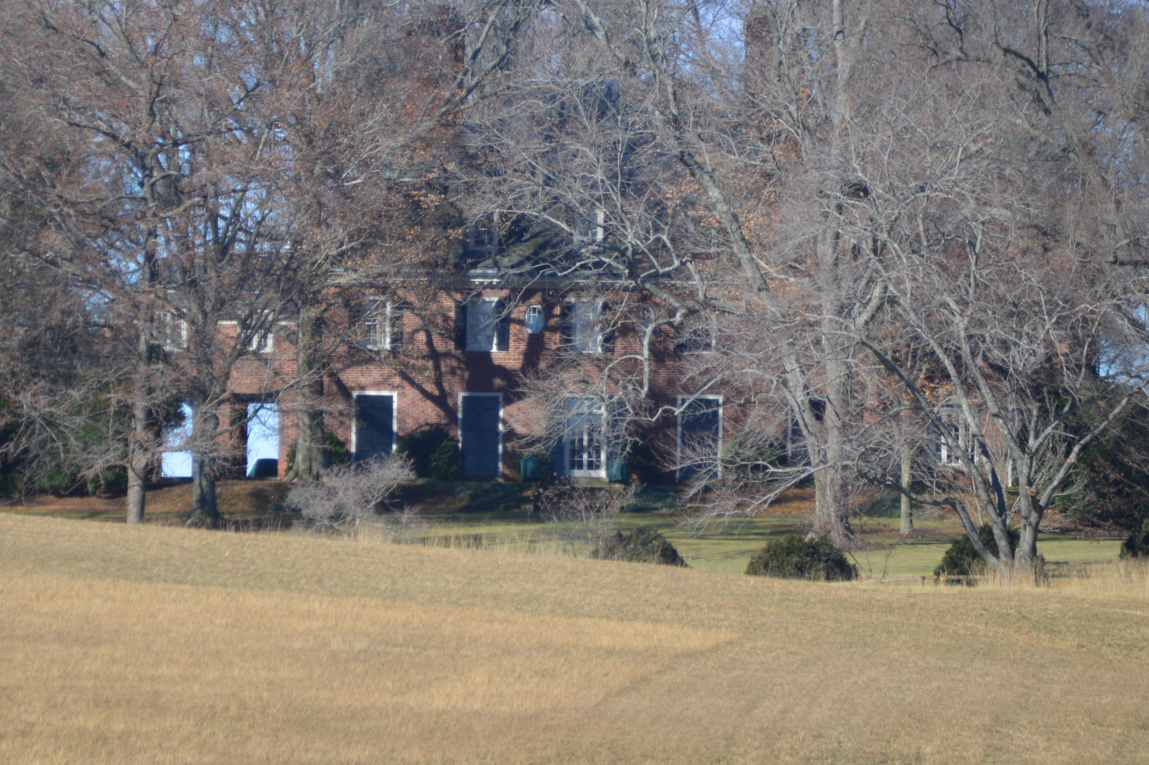 Rear of Grelen (the house faces away from the road), located off Old Rapidan Road north of Orange in Orange County, Virginia, United States. Built in 1935, it is listed on the National Register of Historic Places.